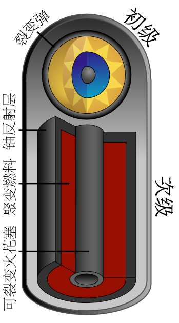 The schematics of Teller-Ulam design of the hydrogen bomb with traditional chinese keys.